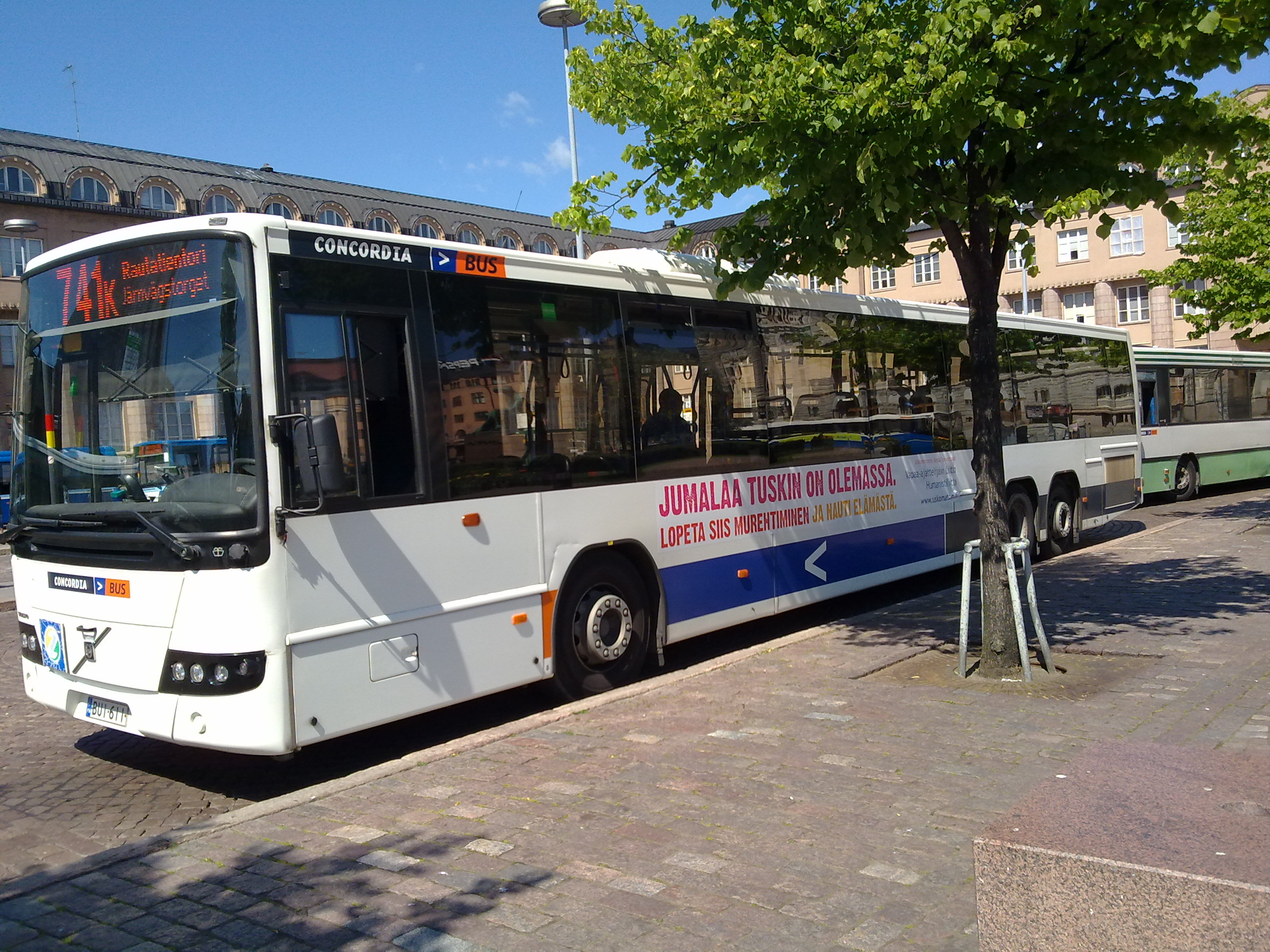 One of the atheist adverts on the side of bus in Helsinki, Finland. The ads were paid by Finnish atheist organizations: "Vapaa-ajattelijain liitto" and "Humanistiliitto", and the campaign started June 22, 2009 and it ended July 5, 2009. Volvo 8700 bus (#611) with Volvo B12BLE 6x2 chassis. Built 2007. Concordia Bus Finland from Espoo operator.